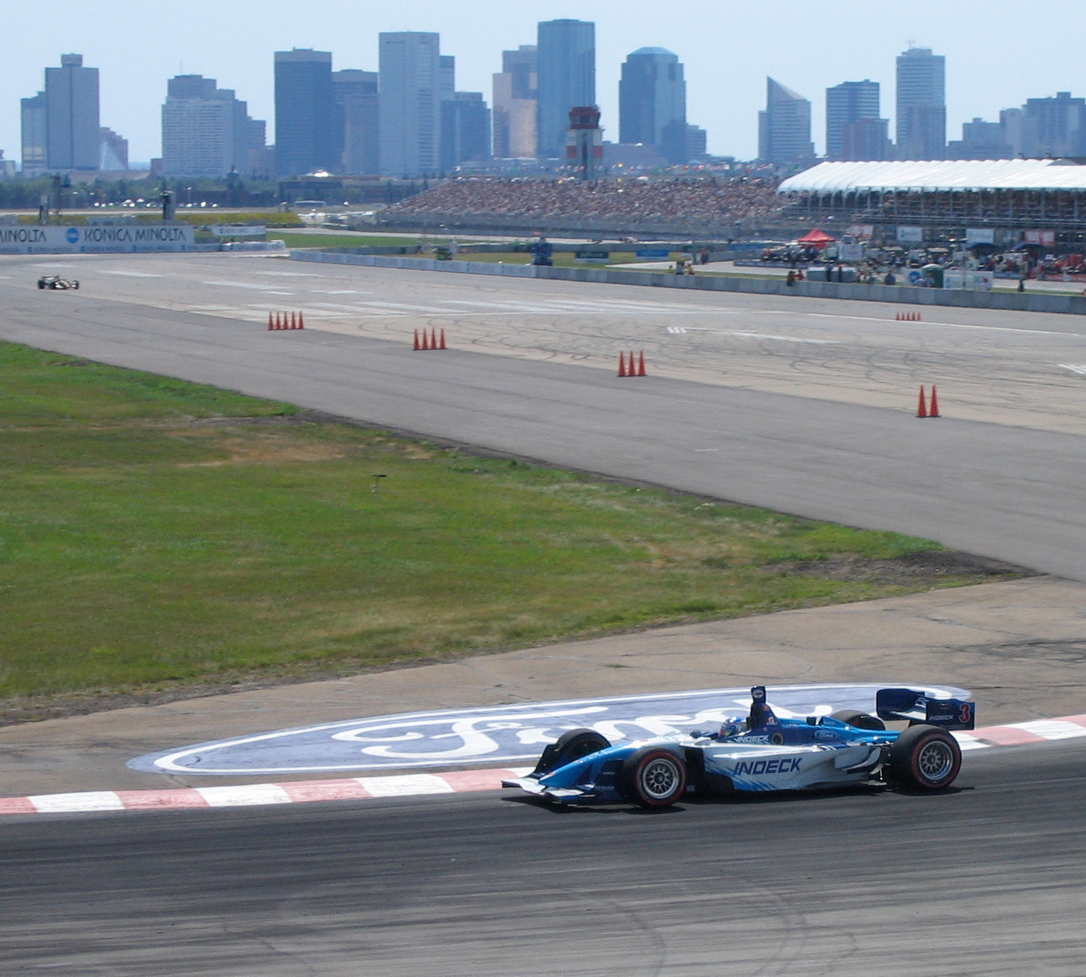 Paul Tracy at the Edmonton Grand Prix Champ Car race 2006. Photo: Fred Young